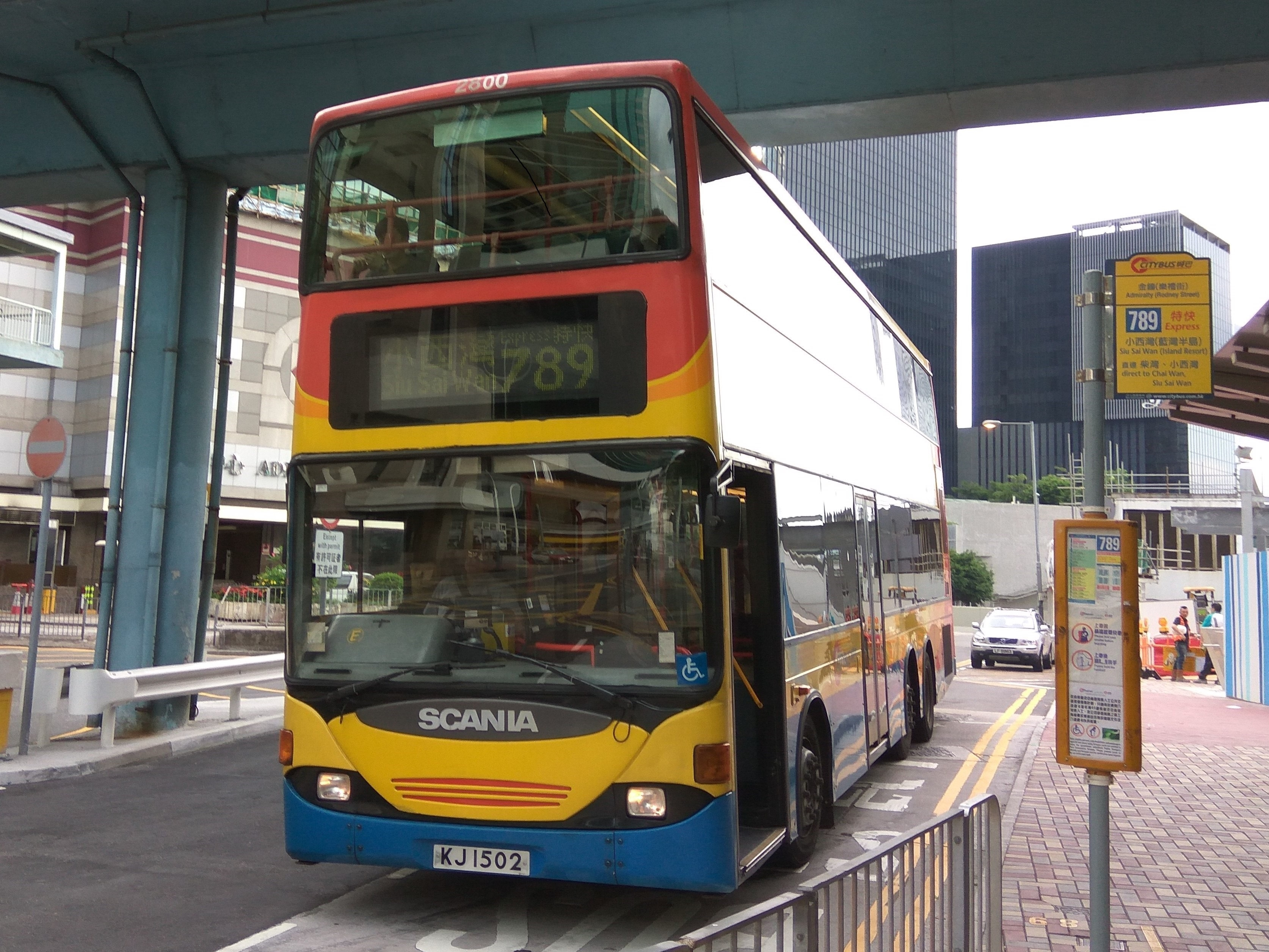 Scania K94UB (Citybus Fleet No. 2800) in Admiralty, Hong Kong.